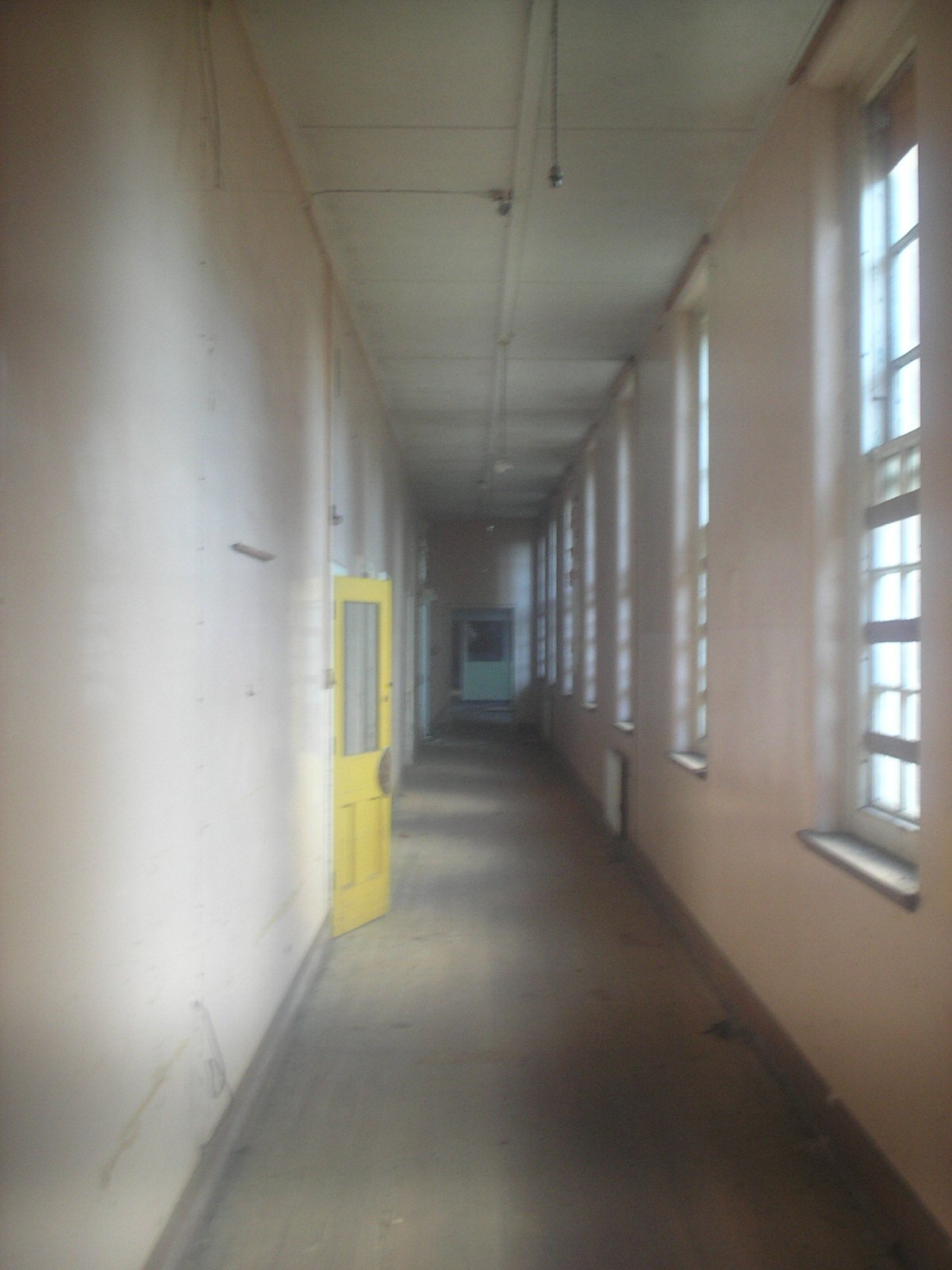 Internal corridor of the disused 'West 5' ward of Whitchurch Psychiatric Hospital, Cardiff, UK.